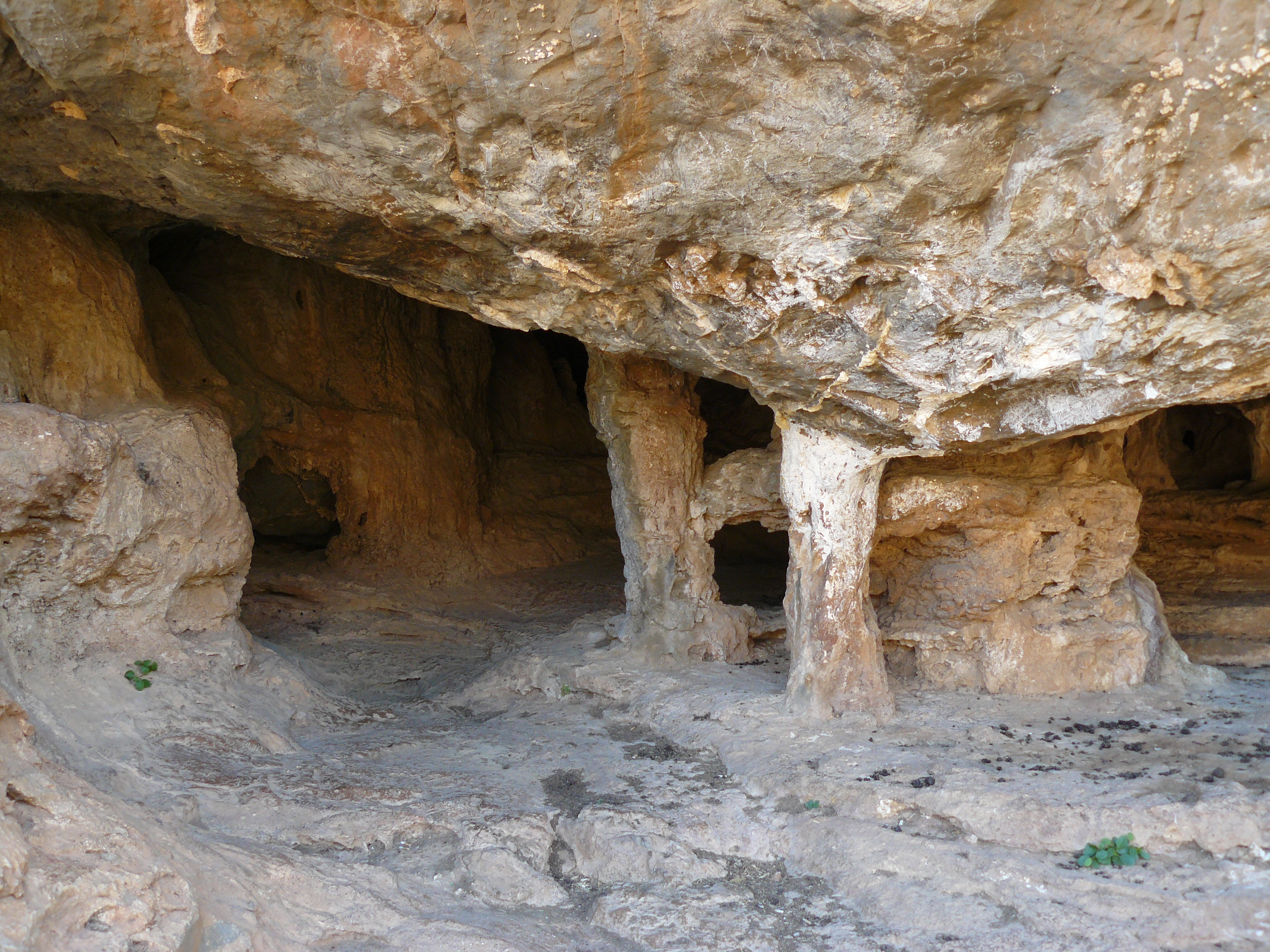 Cave of Milatos, Lasithi, Crete